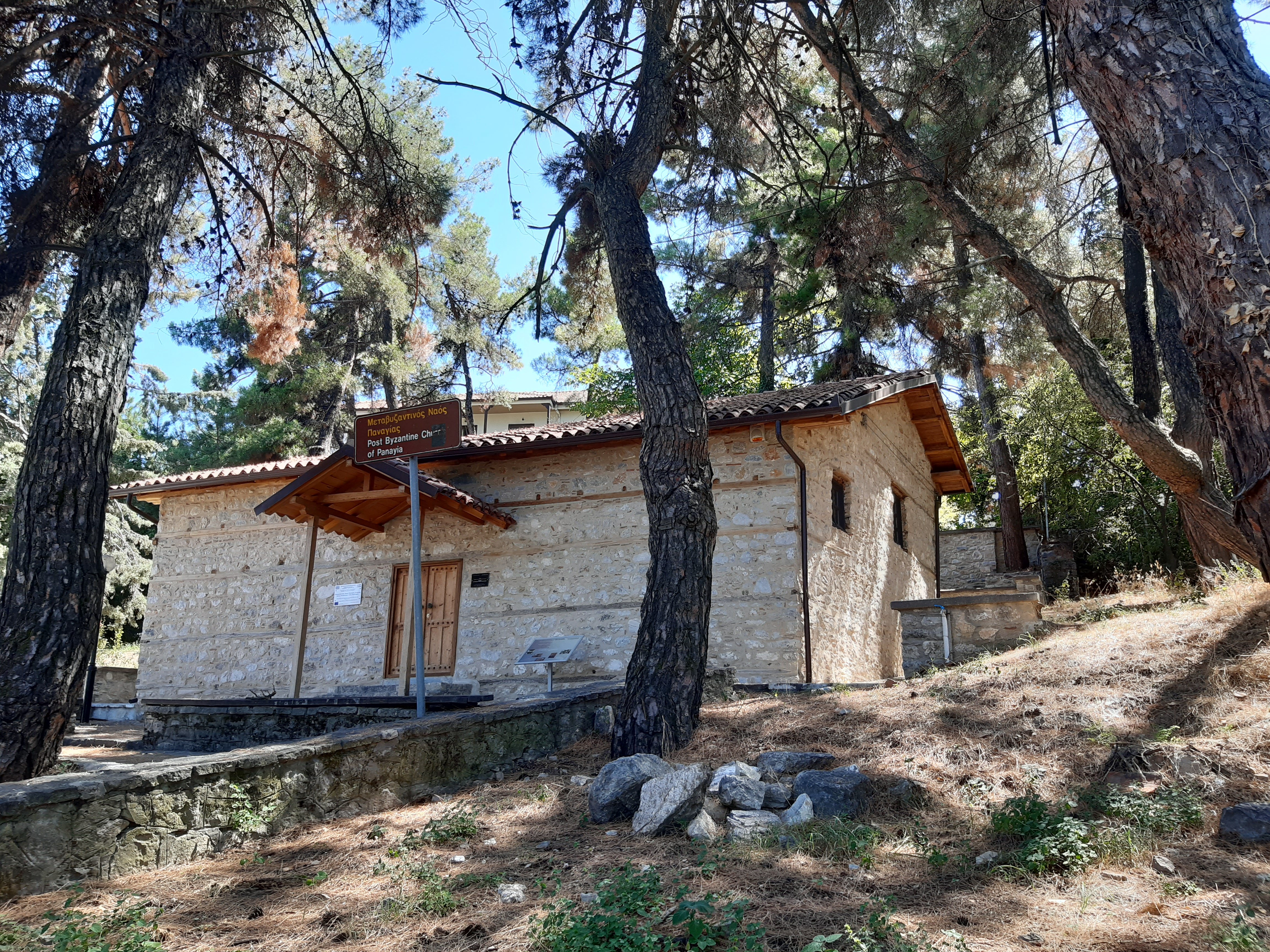 Saint Mary of Unmercenaries Church, Kastoria